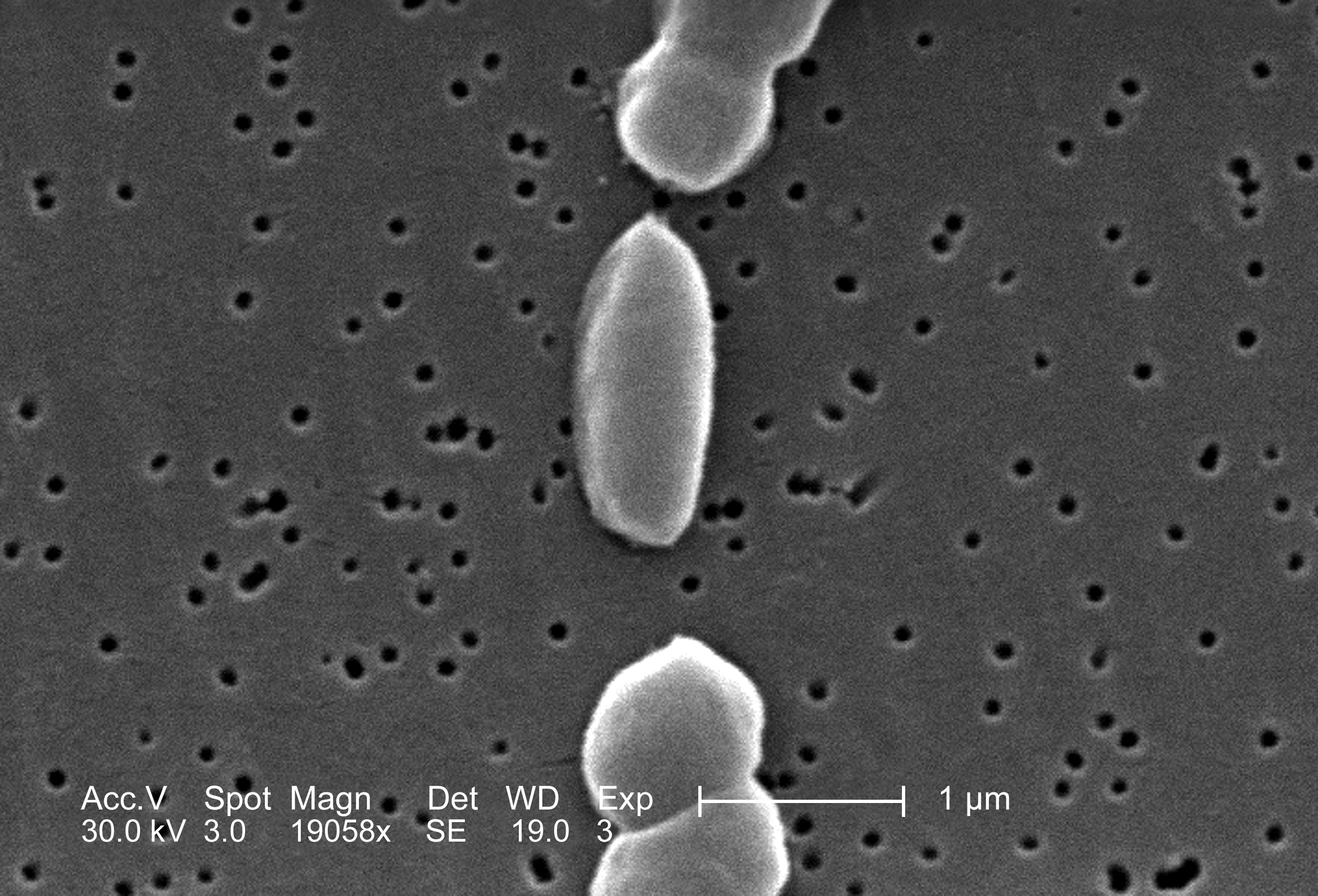 This scanning electron micrograph (SEM) depicts a number of Vibrio parahaemolyticus bacteria; Mag. 19058x. Vibrio parahaemolyticus is a bacterium in the same family as those that cause cholera. It lives in brackish saltwater, and causes gastrointestinal illness in humans. V. parahaemolyticus is a halophilic, or salt-requiring organism, naturally inhabiting coastal waters in the United States and Canada, and is present in higher concentrations during summer. When ingested, V. parahaemolyticus causes watery diarrhea often with abdominal cramping, nausea, vomiting fever and chills. Usually these symptoms occur within 24 hours of ingestion. Illness is usually self-limited and lasts 3 days. Severe disease is rare and occurs more commonly in persons with weakened immune systems.